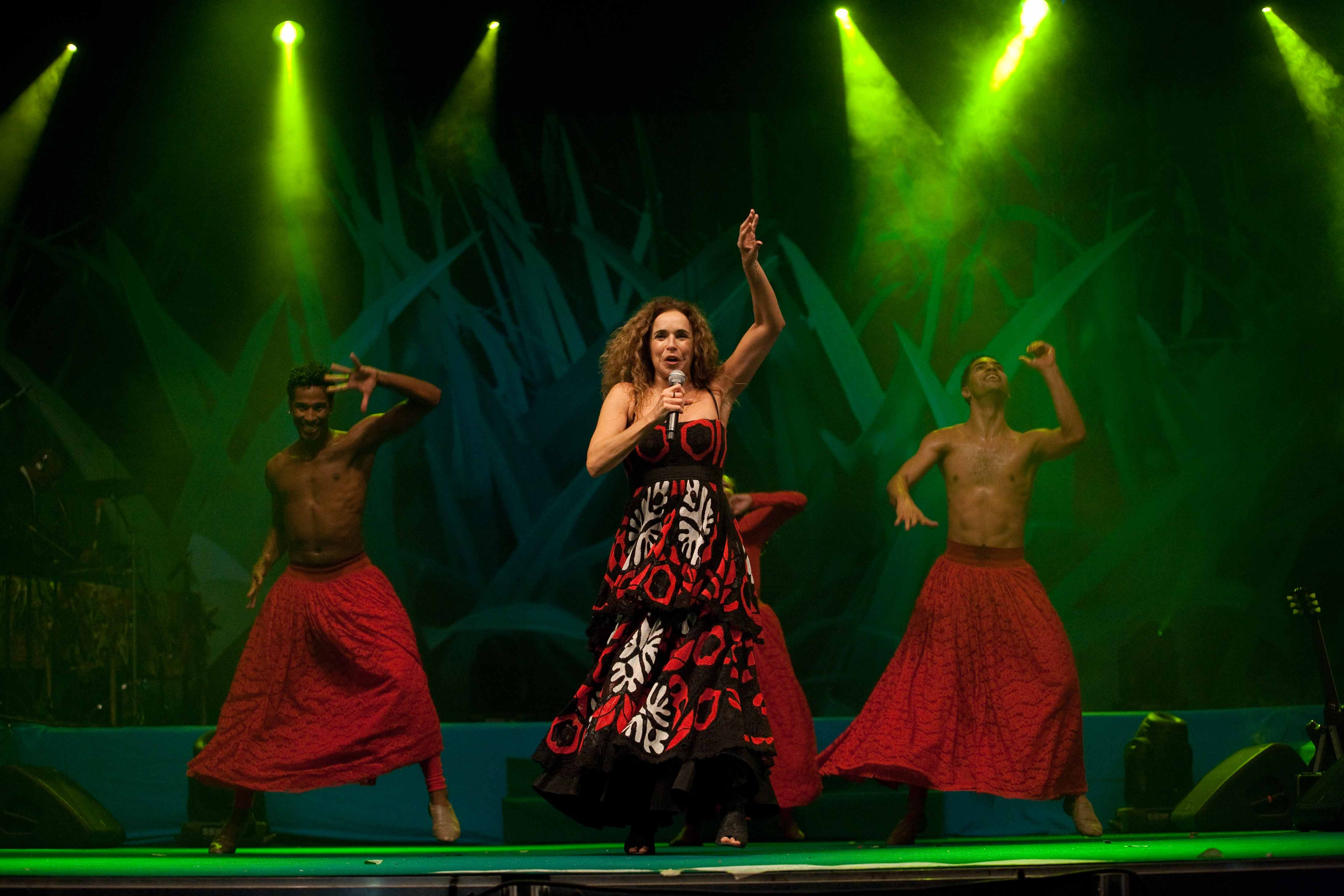 Musical Entertainment with the participation of artists in the context of the celebrations of 510 years of the discovery of Brazil and 35 years of Independence of Cape Verde